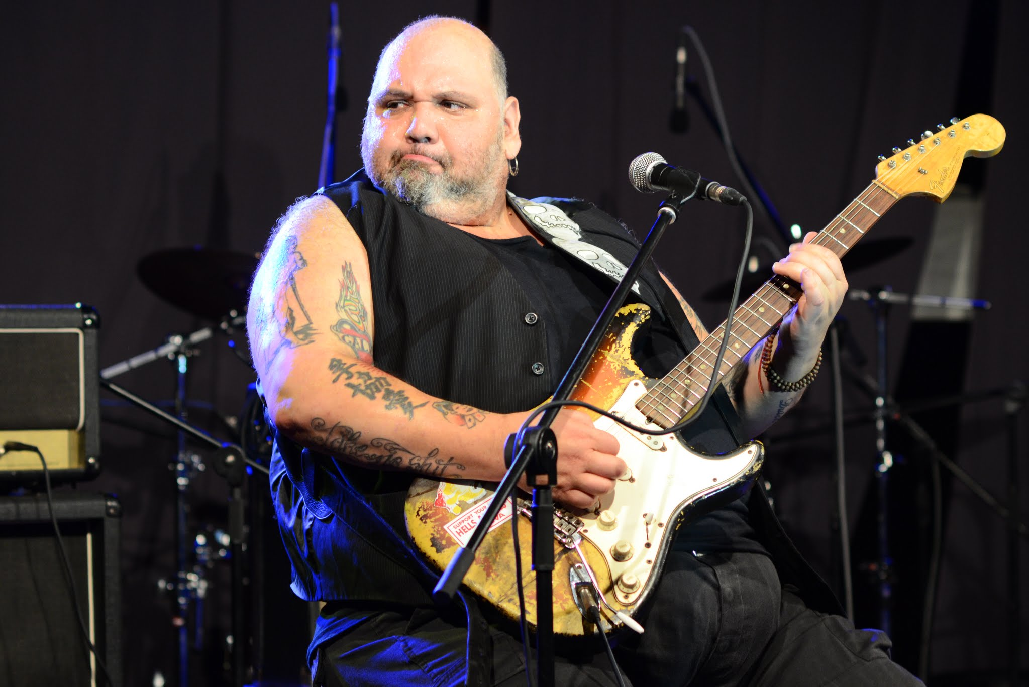 Popa Chubby at Žusterna 2012